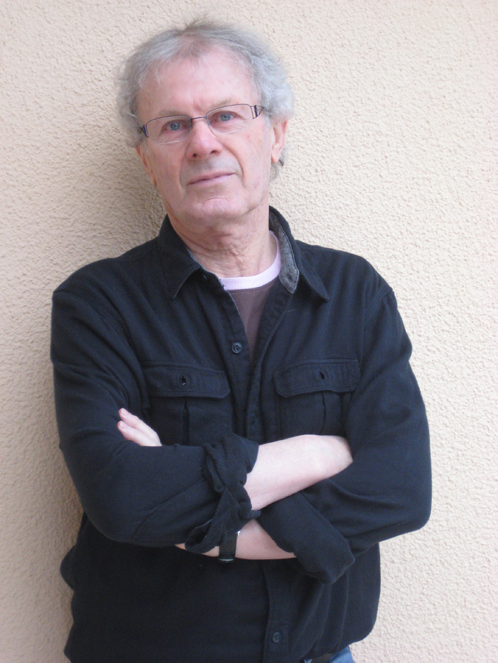 A photo of Jean-Paul